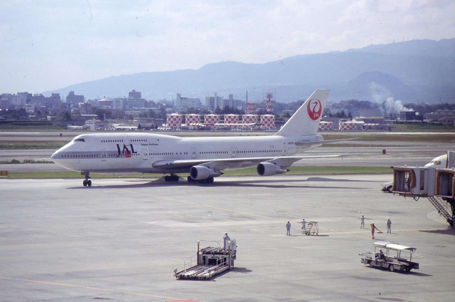 This photo was taken in Osaka International Airport in the summer of 1992. (At that time, IATA Airport Code was "OSA". It was changed to "ITM" in 1994.) 1992年夏ごろの大阪国際空港(OSA/RJOO)。 日本航空(JAL)の B747-346 (JA8183)です。 ちなみに、この機体、2006年現在、リゾッチャ(イエロー)として現役で頑張ってます。 (1992 Osaka International Airport, JAPAN)